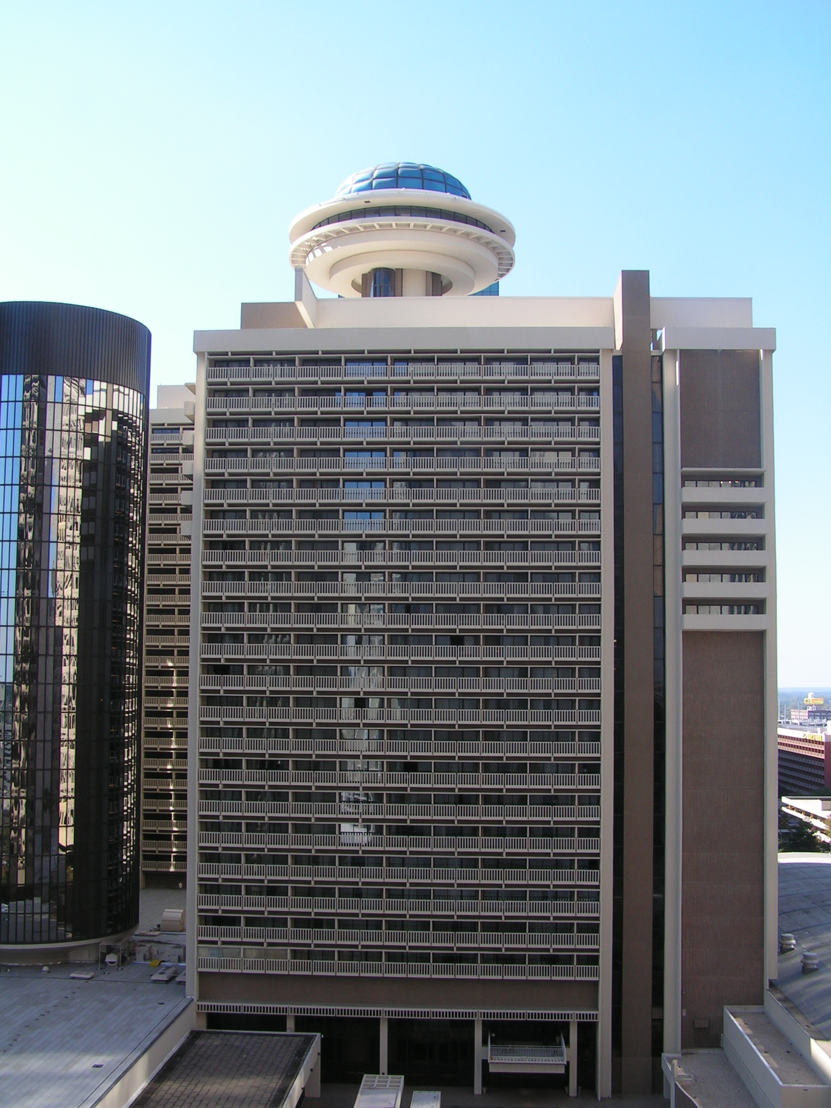 View of the Hyatt Regency Atlanta — from the Marriott Marquis.